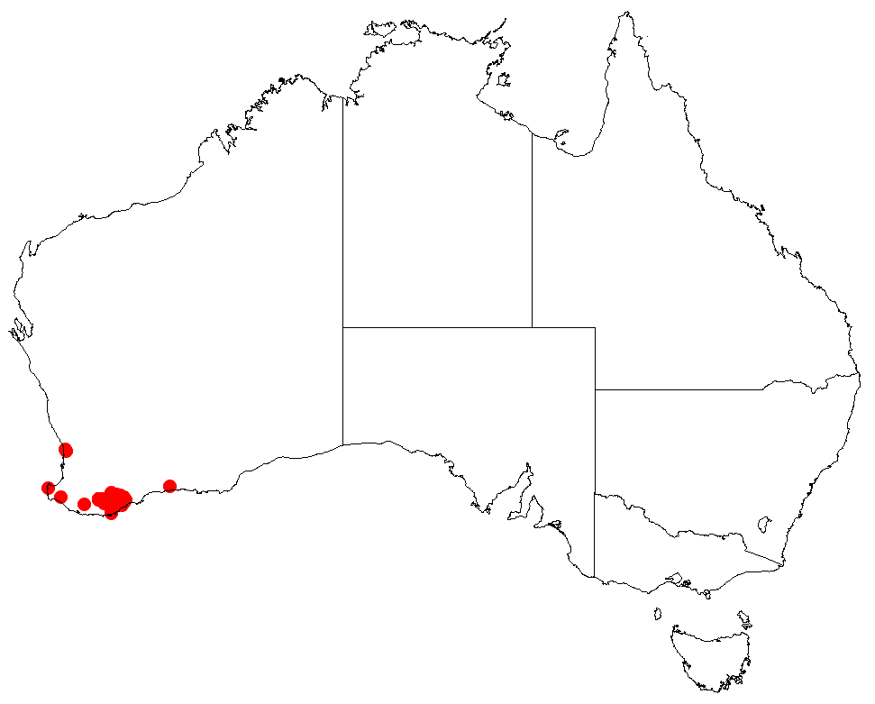 Hakea ambigua Occurrence data downloaded from Australasian Virtual Herbarium on 22 November 2018 using